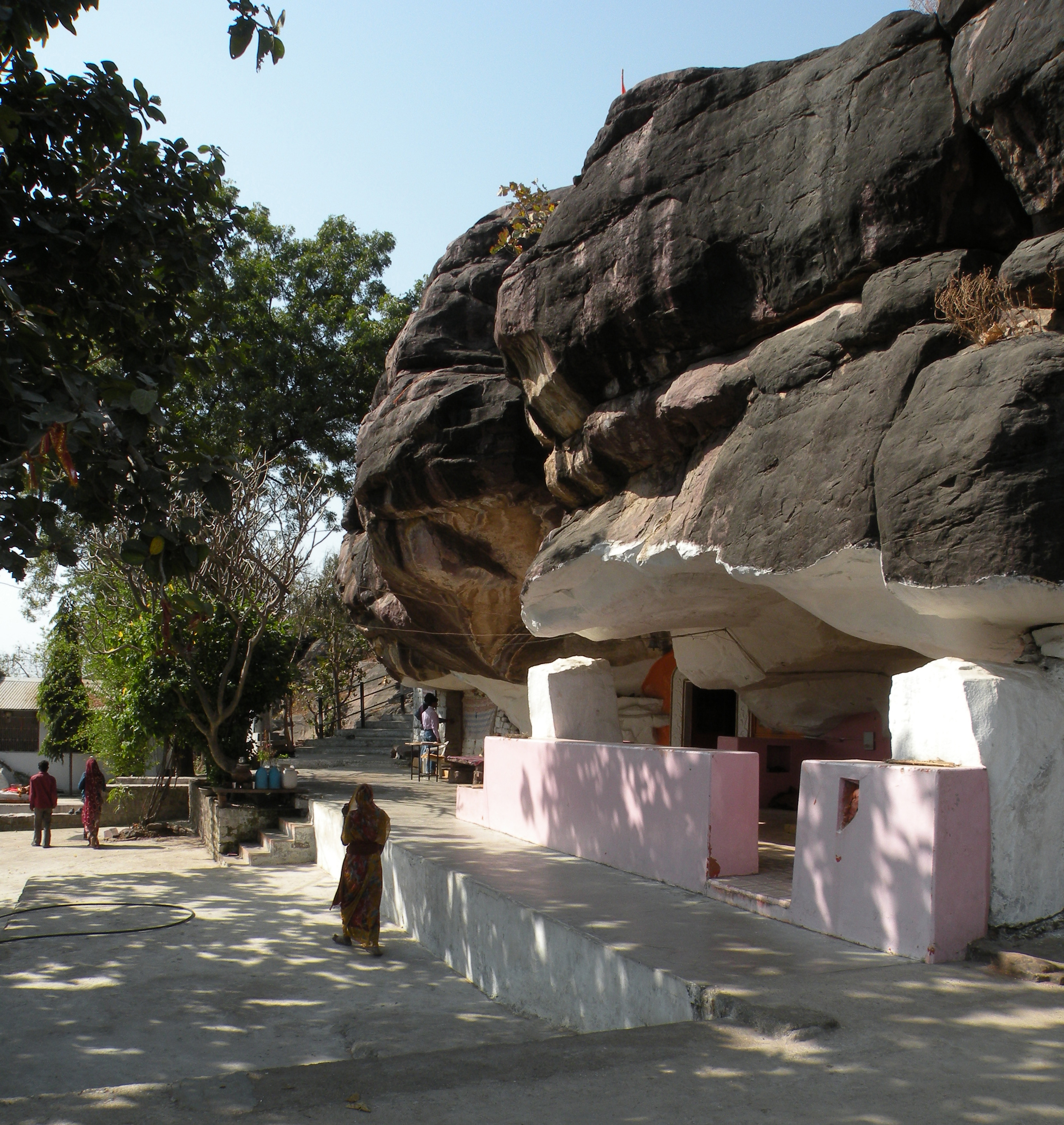 Bhojpur, Madhya Pradesh, India. Rock shelter known as Parvati's cave